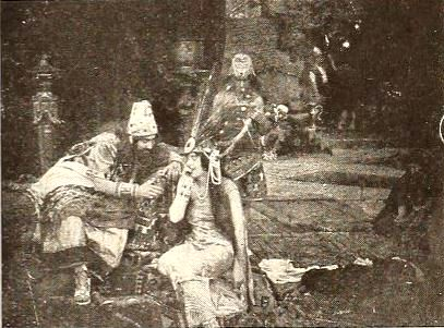 Still from the American silent film Judith of Bethulia (1914) with Henry B. Walthall as Holofernes and Blanche Sweet as Judith, from page 17 of the September 1921 Motion Picture Age.